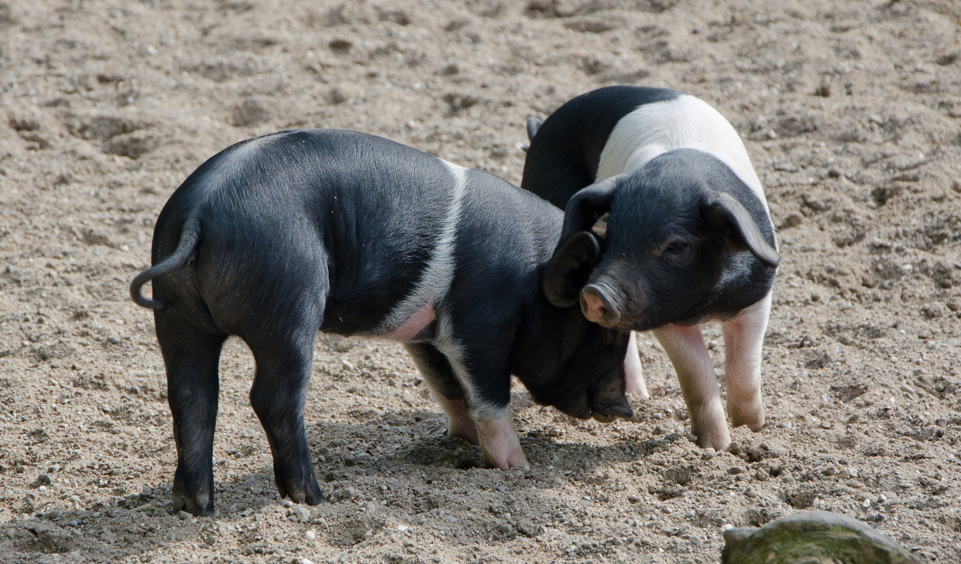 Angeln Saddleback